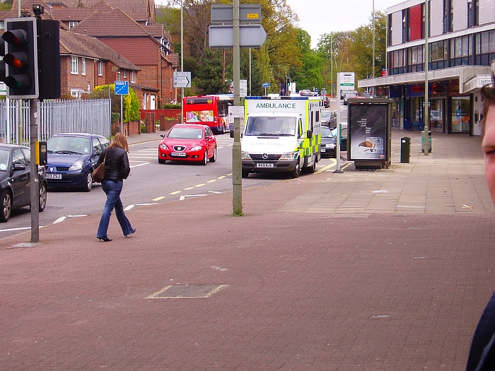 A view from the northern entrance to Farnborough town centre, on Victoria Road (B3014),looking uphill towards the Clockhouse Roundabout. A photograph of this area before commercialisation and major use of cars can be found in the reference book giving the history of Farnborough Town.